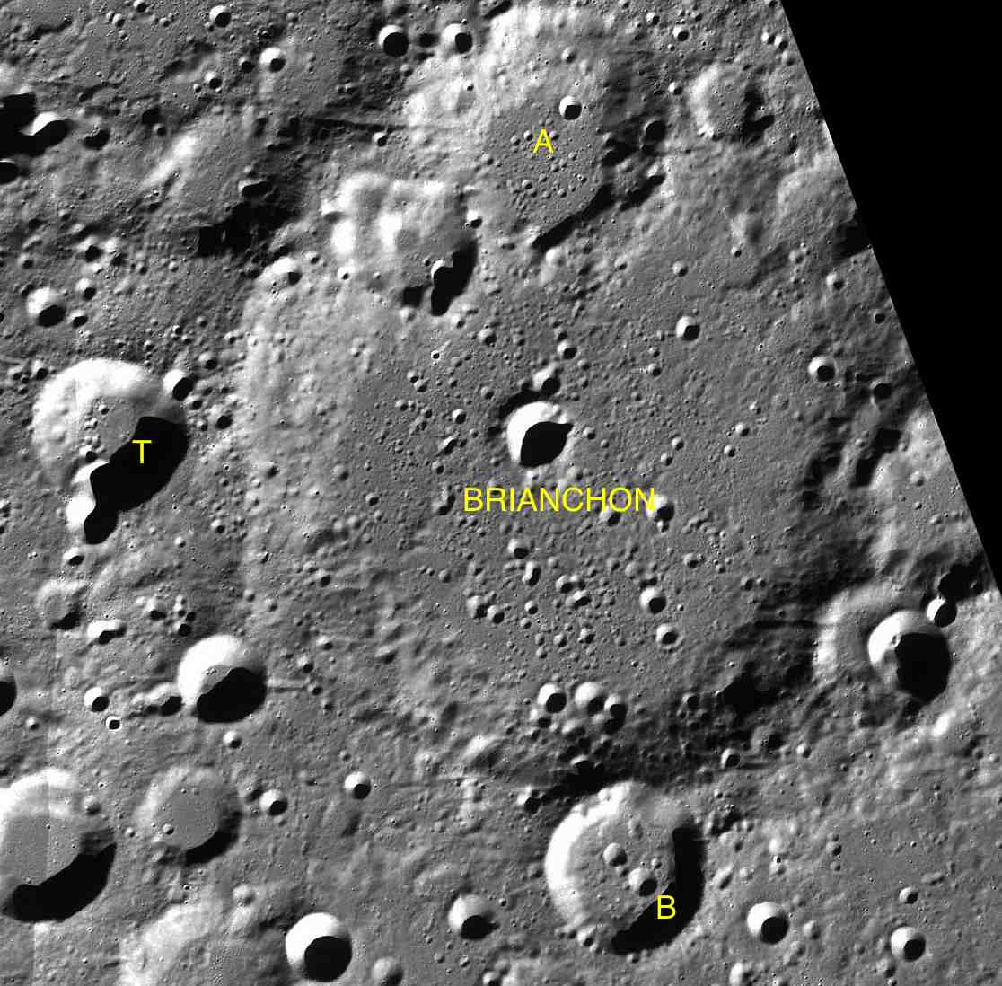 Part of the chart LAC-9 used for the presentation